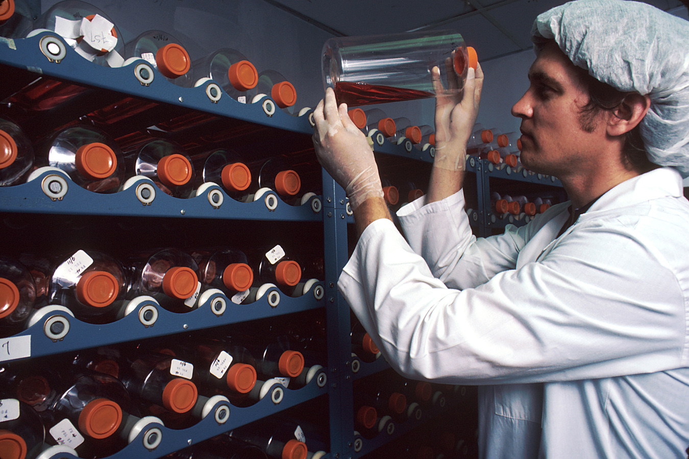 Public domain image from Monoclonal antibodies can be grown in unlimited quantities in the bottles shown in this picture. In addition to the implicit public domain status provided as a work of the United States Government, the National Cancer Institute has also explicitly licensed this photo into the public domain